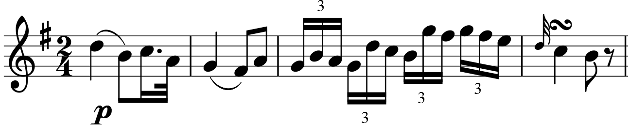 Joseph Haydn, Symphony No. 50, second movement, first violin, bar 1-4